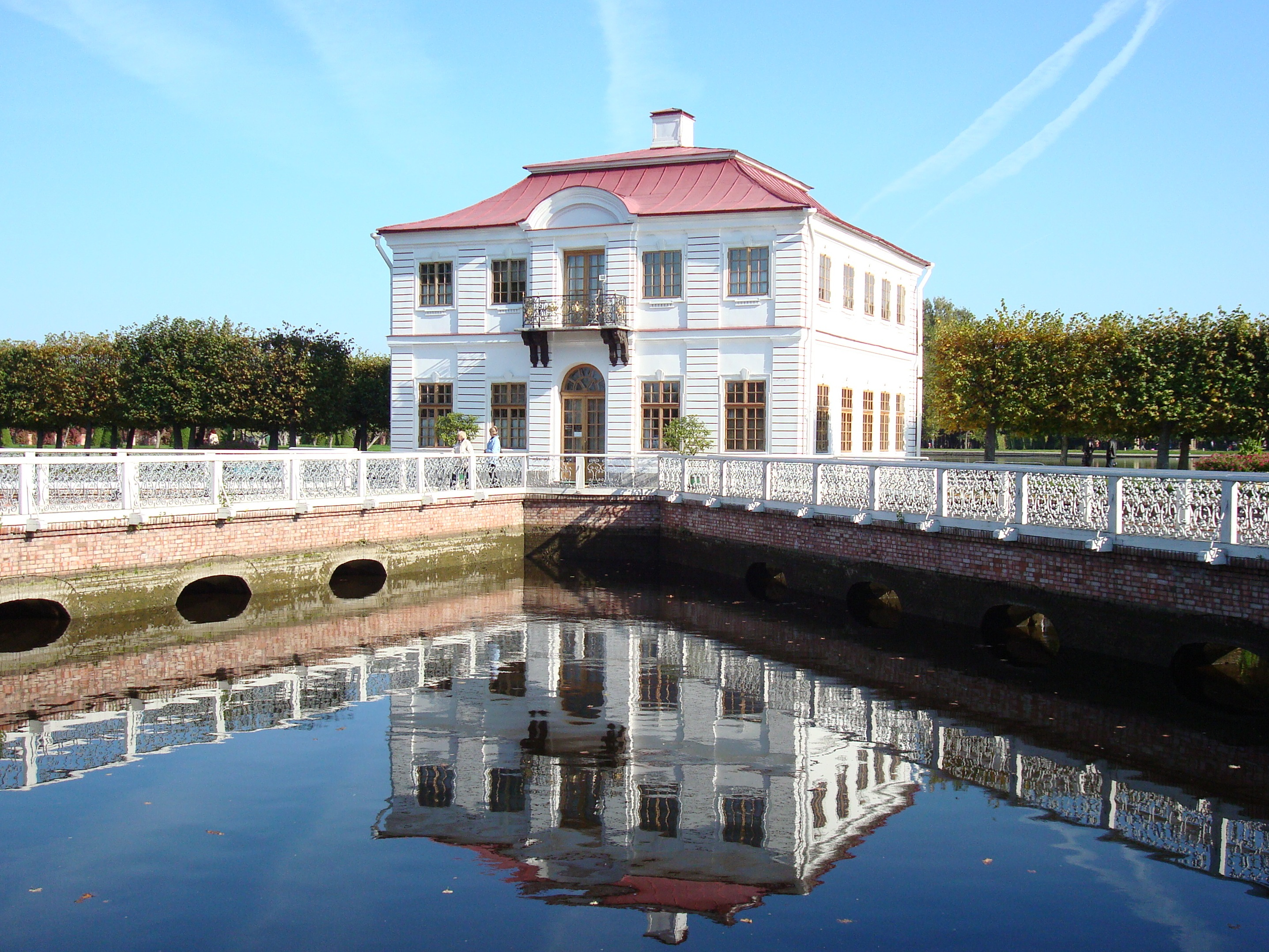 Marly Palace in Peterhof